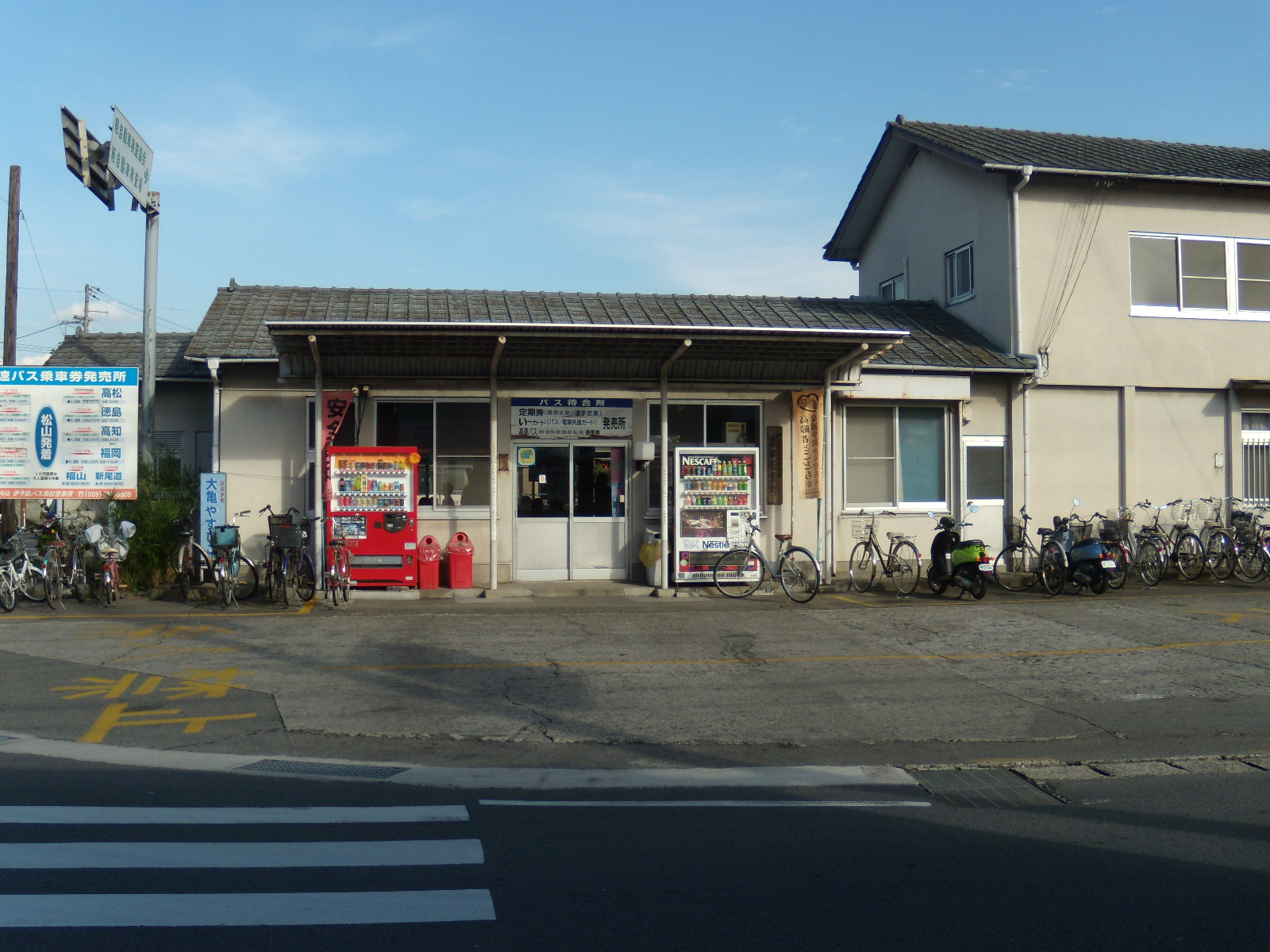 Iyo Railway Morimatsu Office（